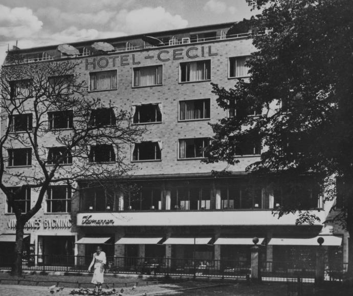 The Women's Building in Copenhagen, with Hotel Cecil and restaurant Karnappen. Built 1935-37 by Ragna Grubb, later rebuilt. The hotel closed down a few years later.